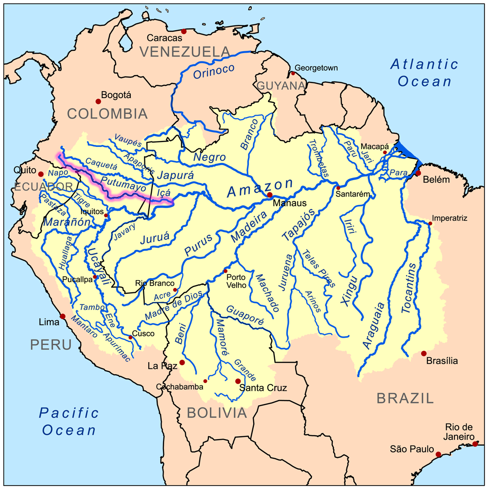 This is a map of the Amazon River drainage basin with the Putumayo River highlighted.